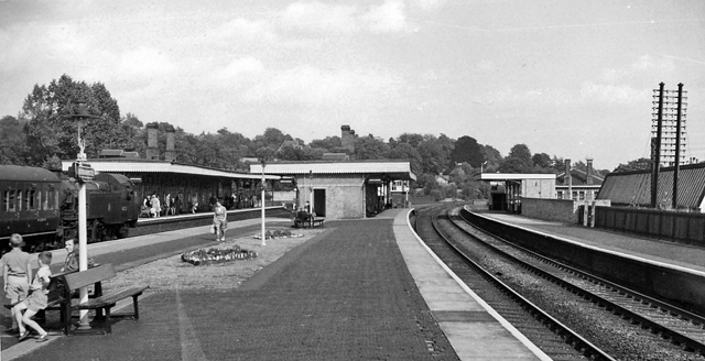 Berkhamsted Station. View ESE towards London; London - Rugby - Crewe etc. West Coast Main Line. This is before Diesels appeared and long before the route was electrified: an Up Local is entering, headed by an Ivatt 3MT 2-6-2T.